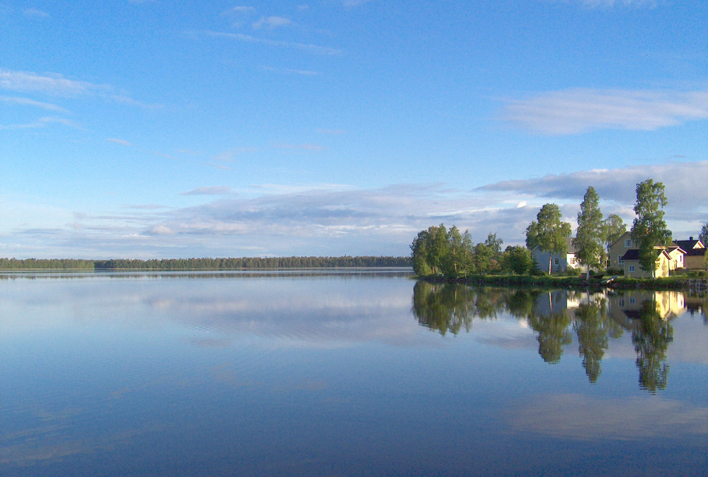 Lake Kuivasjärvi, Oulu, Finland